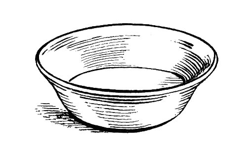 line art drawing